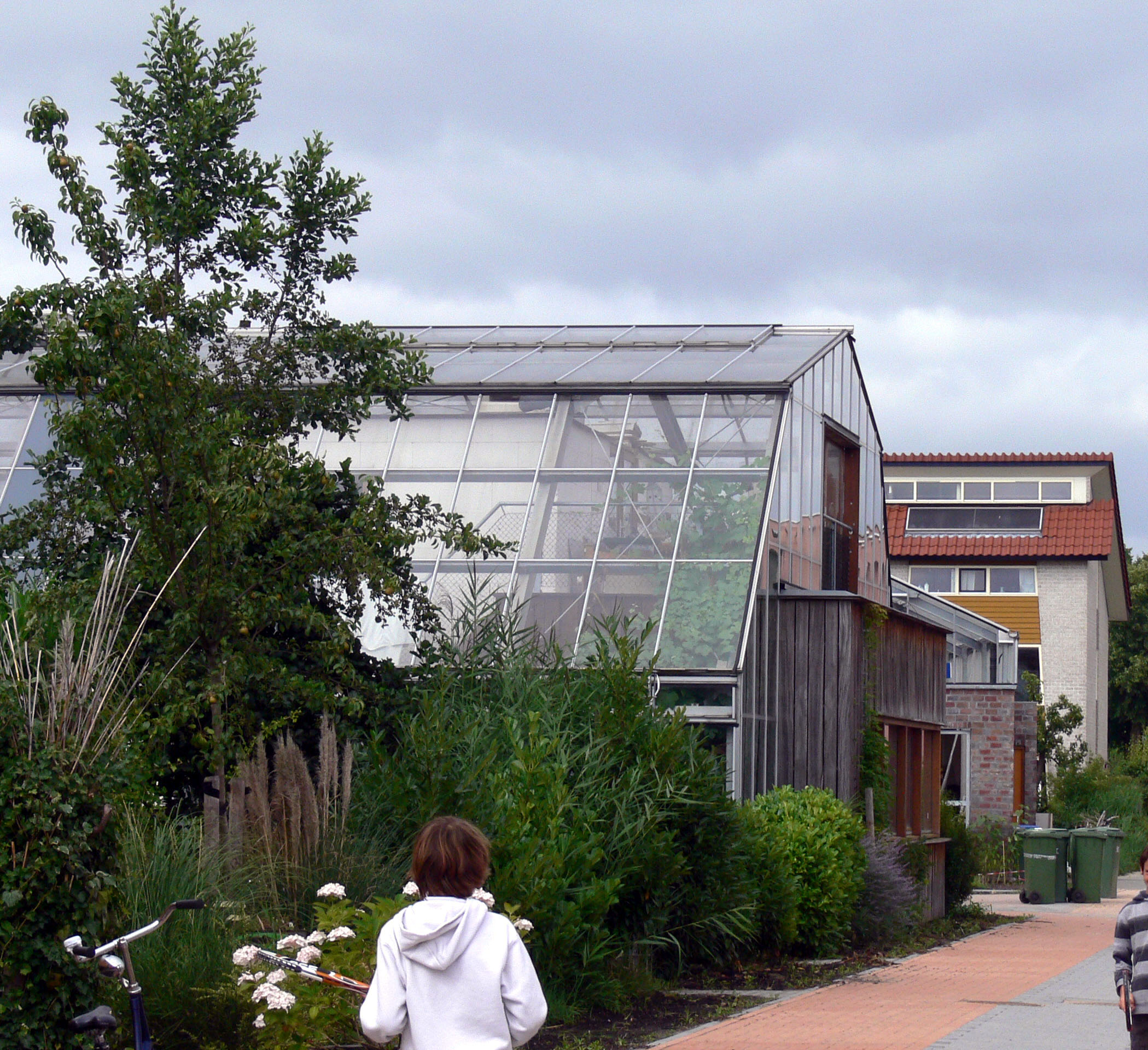 Greenhouse as house in E.V.A. Lanxmeer district (a "green distric" named Lanxmeer, built at Culemborg, The Netherlands), wich is a recent (1994-2009) district (semi-public eco-building) of approximately 250 ecological houses, several offices and a urban farm. The project is based on "Sustainable Implant" with a spatial combinaison of natural systems, technical approach of integrated waste (wastewater) / energy system and écological and social purposes, for an urban neighborhood. The district is in an ecologically sensitive area (former drinking waterextraction and retention area). The conception of this district is based on permaculture, and organic design, a small biogas installation (able to treate black water and organic waste and garden & park waste), a combined Heat Power. Some houses are in closed greenhouse. A semi-public building (the ‘EVA Centre) should yet be made, based on the Living Machine concept.